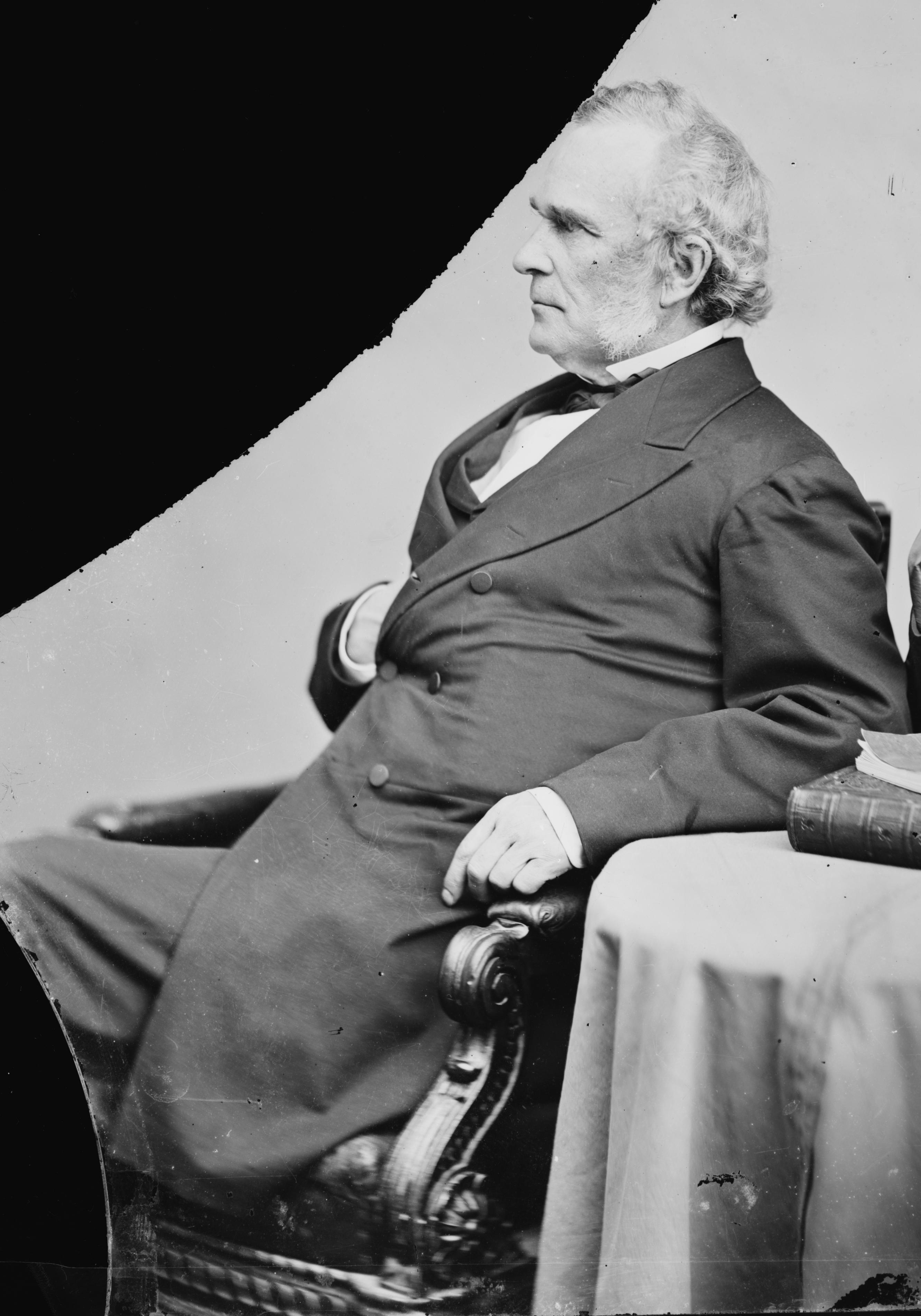 William Alfred Buckingham. Library of Congress description: "Hon. Wm. A. Buckingham of Conn."